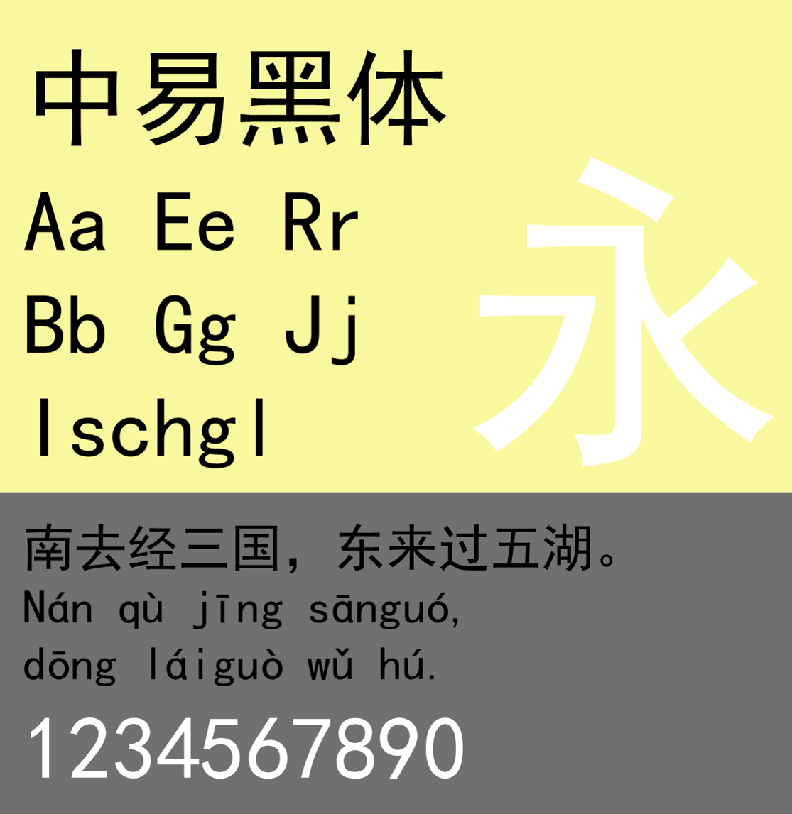 Sample of SimHei font, displayed is SimHei v5.03. Shown in picture are Latin alphabets “AaBbEeGgJjRr”, “Ischgl”, Simplified Chinese “南去经三国，东来过五湖。” with its pinyin, and numerals 1-0.